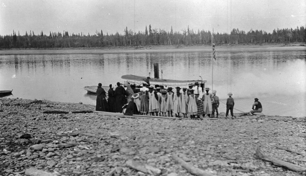 The Hudson's Bay Company tug Messenger at the Saint Henri Mission, Fort Vermilion.